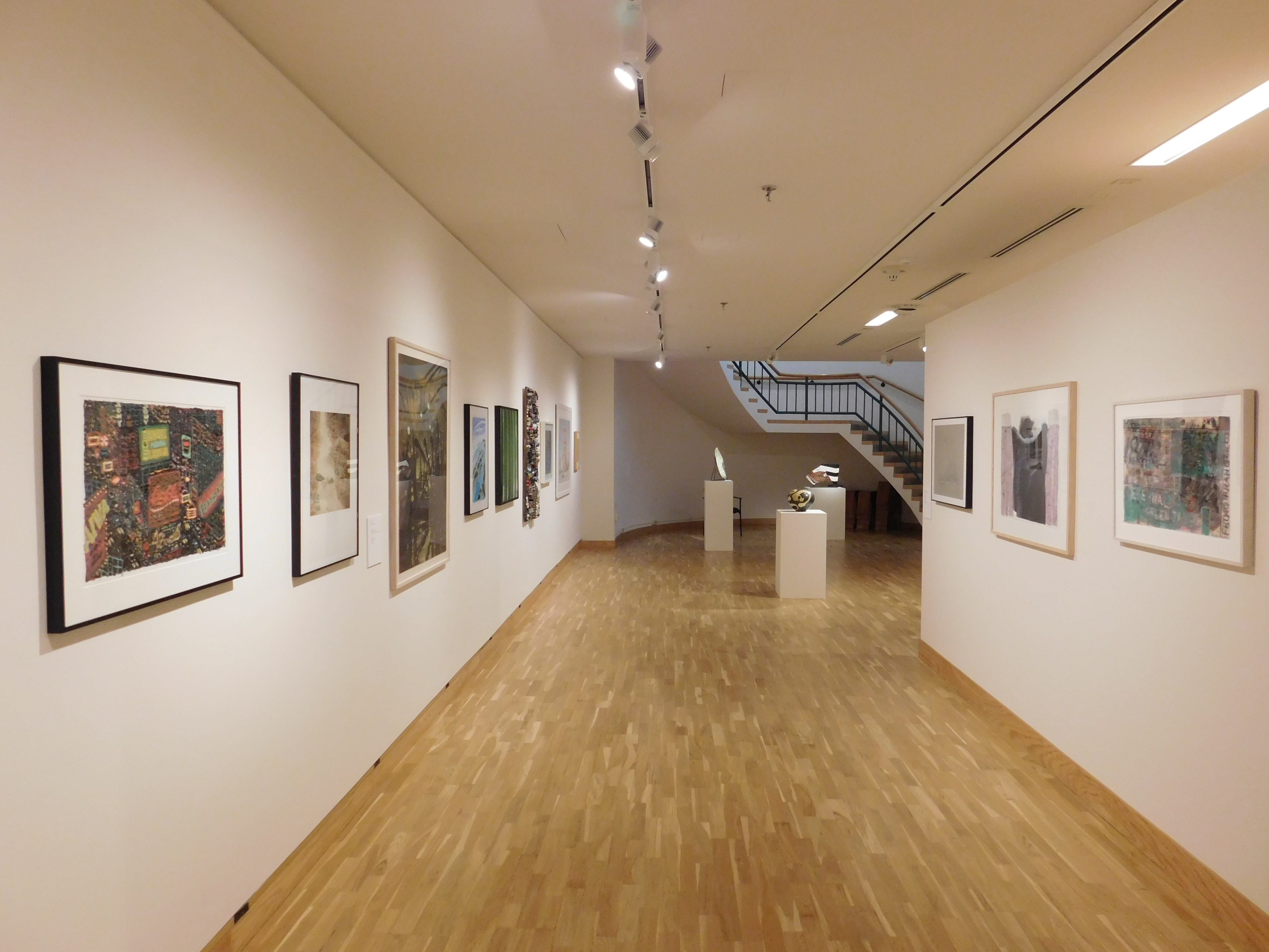 Bates College Art